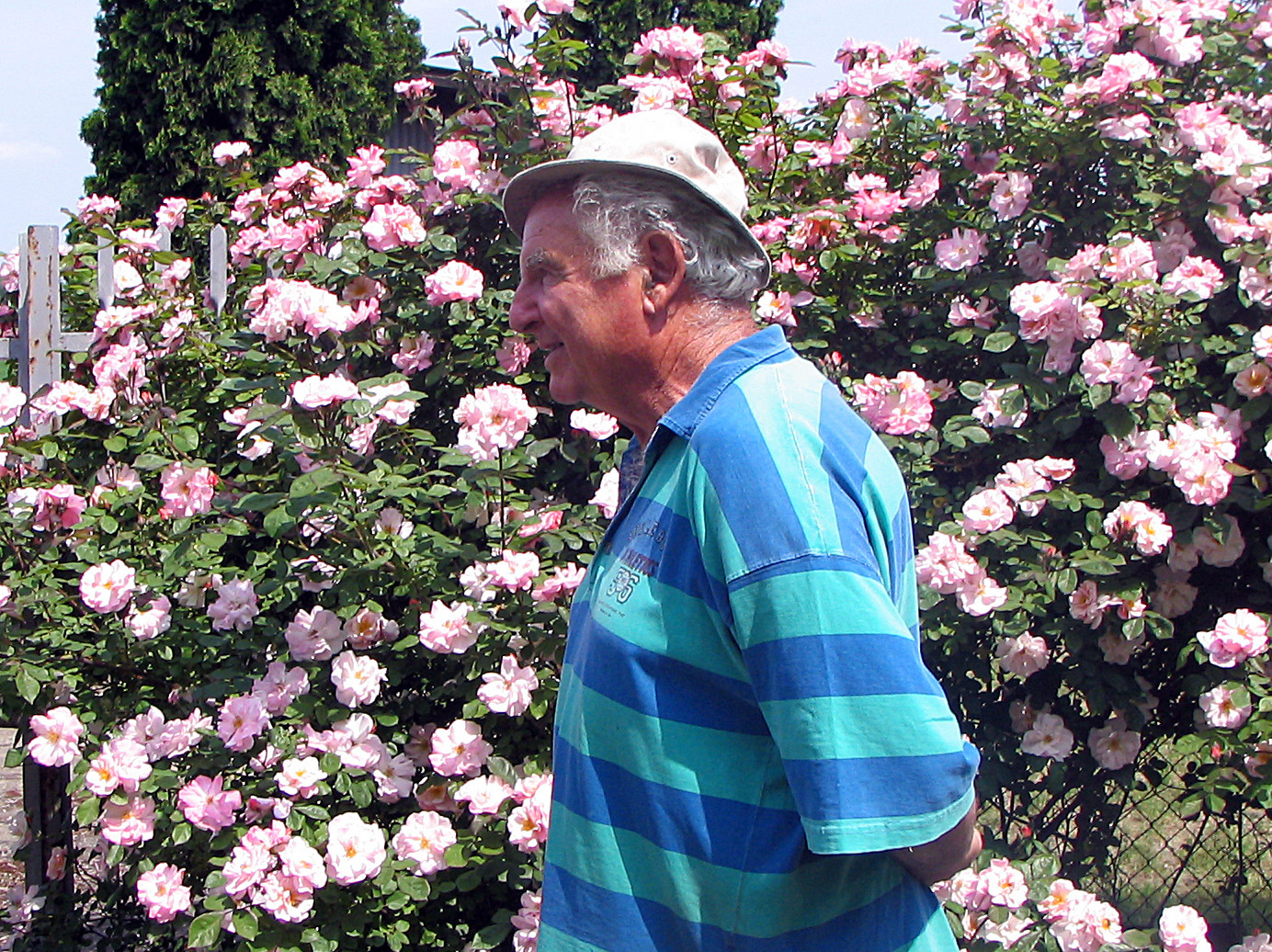 Climbing Rosa 'Clair matin' (Rosarium Kis, Serbia) and Djura Kis owner of Rosarium